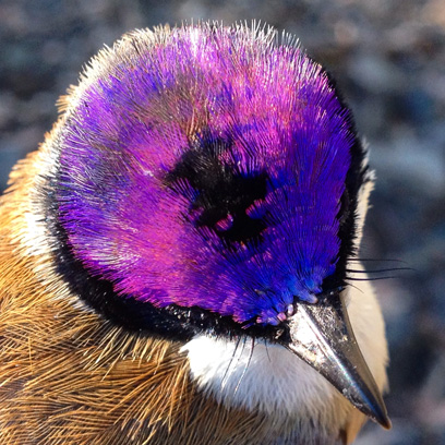 Detail of the head of the male purple-crowned fairy-wren (eastern race macgillivrayi)